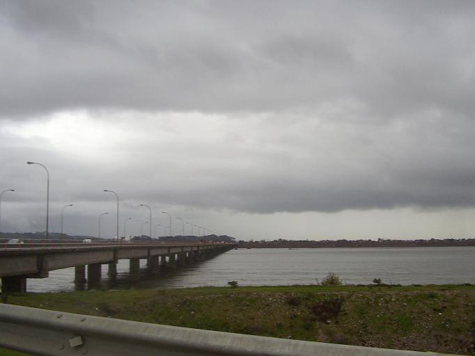 This picture is a view of the Juan Pablo II Bridge and Bio Bio River, from Concepción, Chile. It was took by Ramón Meneses Morales on July 7th 2006